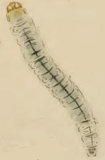 Stainton’s Natural History of the Tineina (1855–1873): Caloptilia semifascia